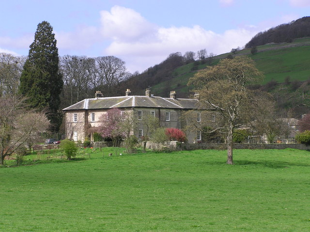 Ellerton Abbey. A grand country house and shooting lodge, built in 1830. Now a Hotel.